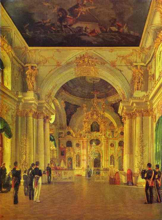 View of the Big Church of the Winter Palace.